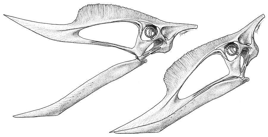 Hypothetical reconstructed skull of Banguela, based on the known material and other dsungaripterids.